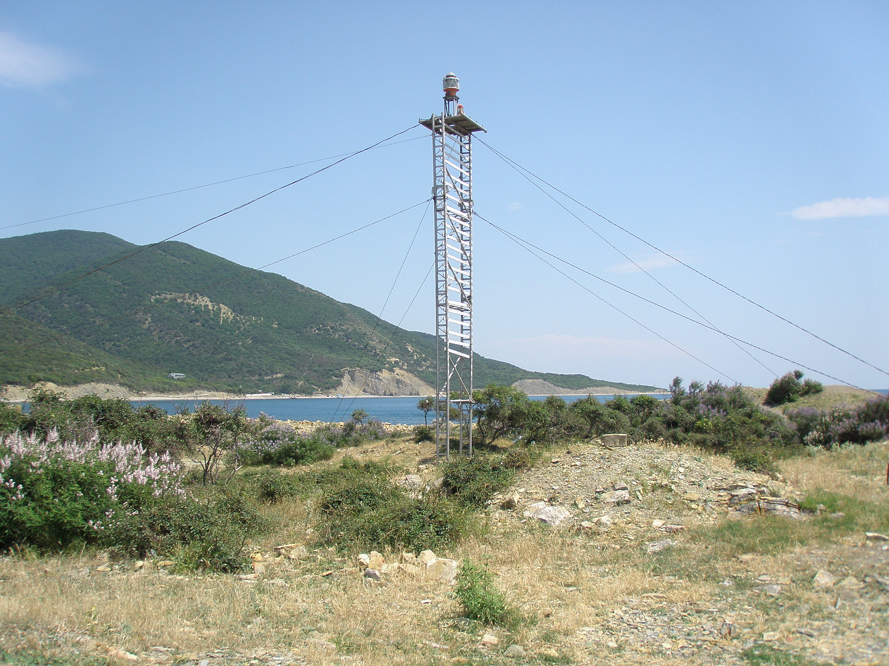 Automatic lighthouse.